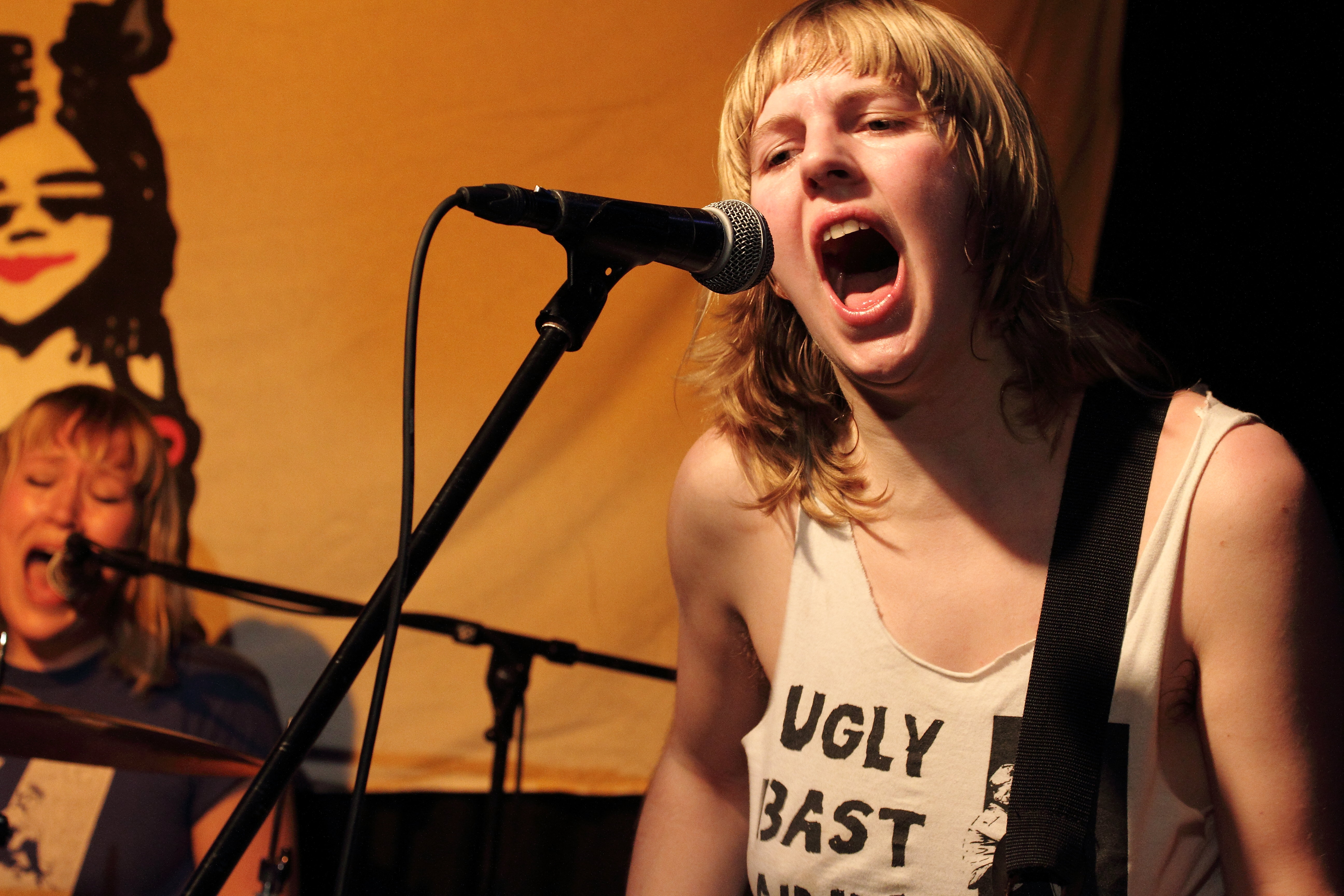 The Riot Grrrls Lucky Malice from Norway at Club W71, Weikersheim.